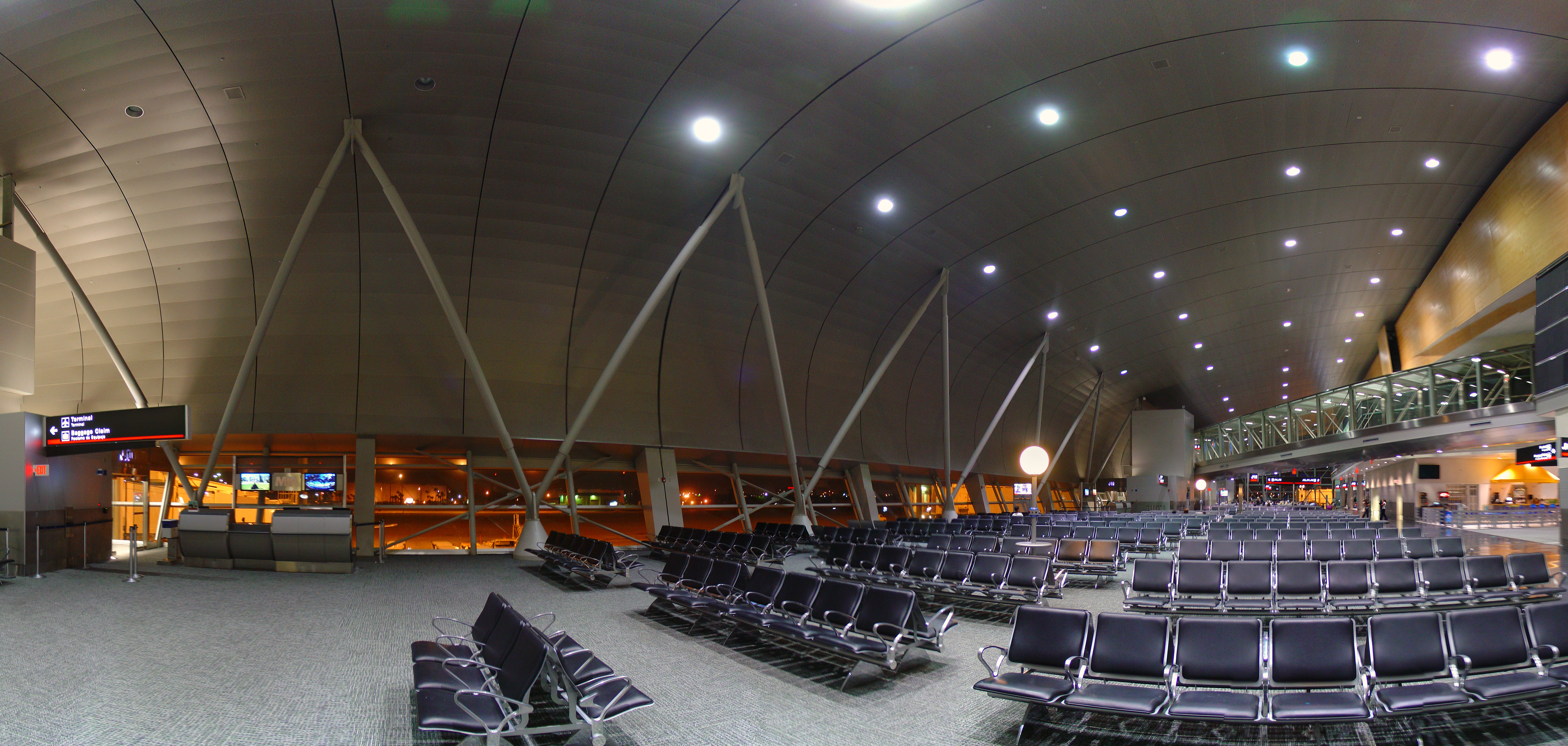 Please, have this description accessible to all by translating it in different languages.